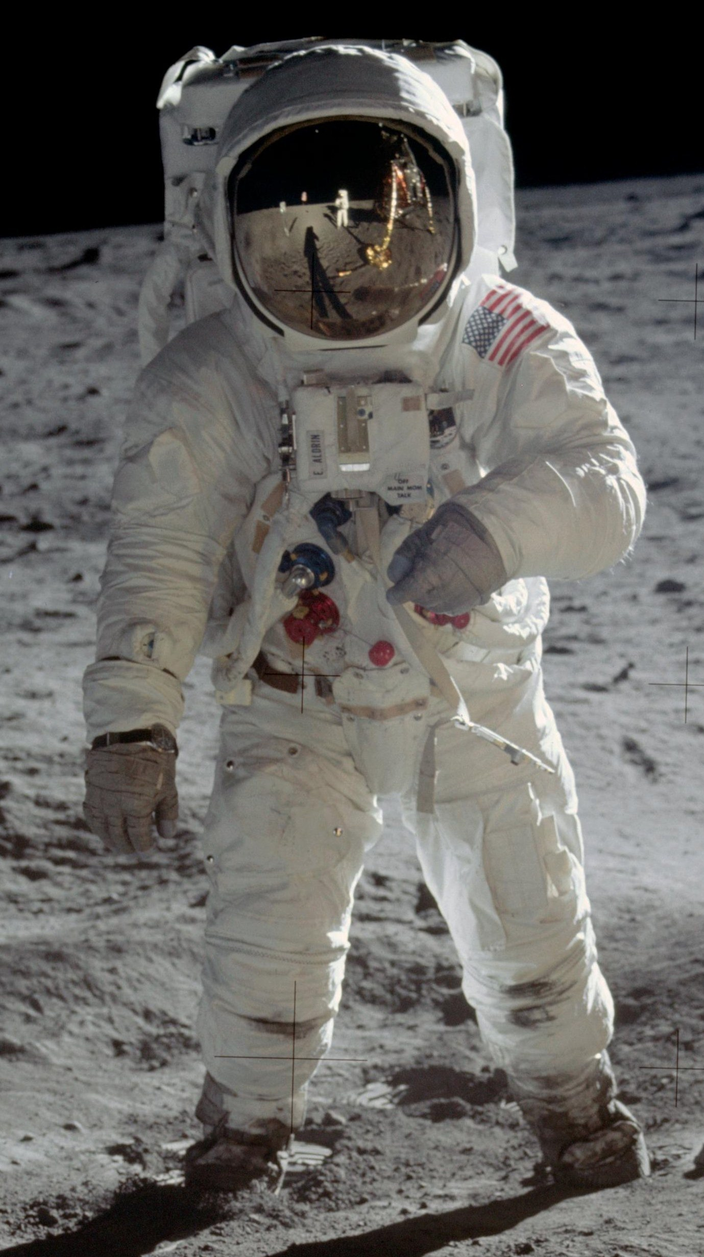 Astronaut Edwin E. "Buzz" Aldrin, lunar module pilot, walks on the surface of the moon near the leg of the Lunar Module "Eagle" during the Apollo 11 extravehicular activity. Astronaut Neil A. Armstrong, commander, took this photograph.